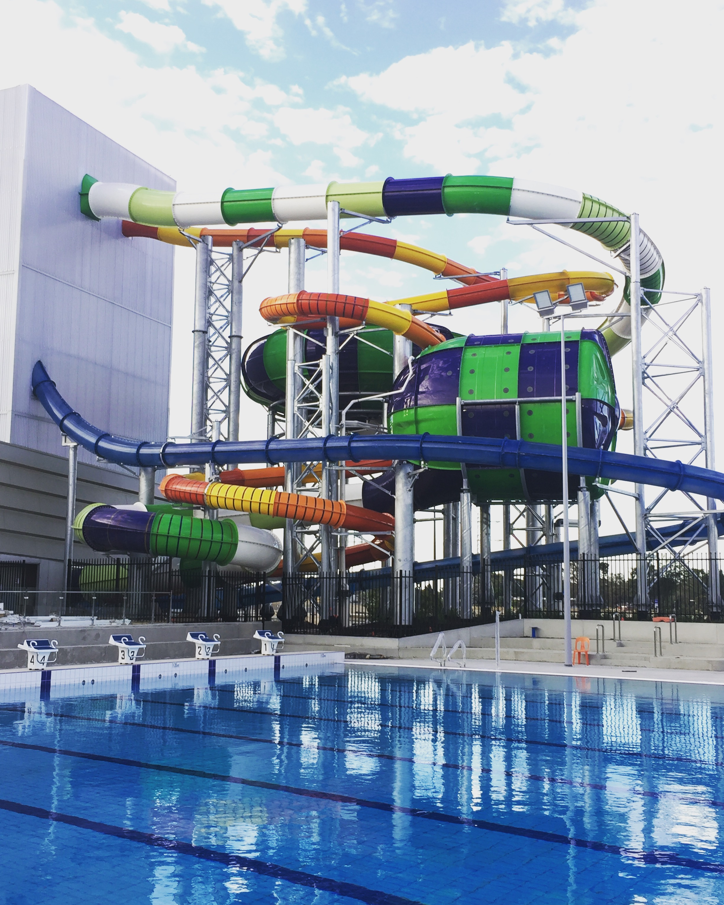 Cockburn ARC